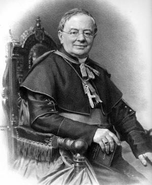 Kardinal Giuseppe Andrea Bizzarri (1802-1877)